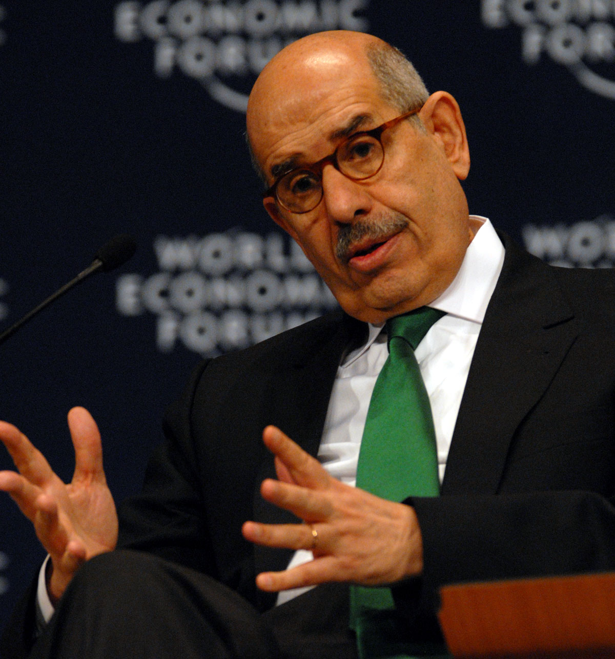 SHARM EL SHEIKH/EGYPT, 19MAY08 - Mohamed M. ElBaradei, Director-General, International Atomic Energy Agency (IAEA), Vienna, captured during the session "Fresh Strategies for Stability?" at the World Economic Forum on the Middle East 2008 held in Sharm El Sheikh, Egypt. Watch this session on the World Economic Forum's YouTube channel.